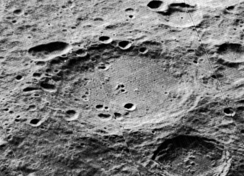 Oblique view of Sommerfeld, on the far side of the moon, facing southwest.